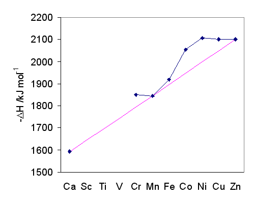 hydration enthalpies divalent transition metals